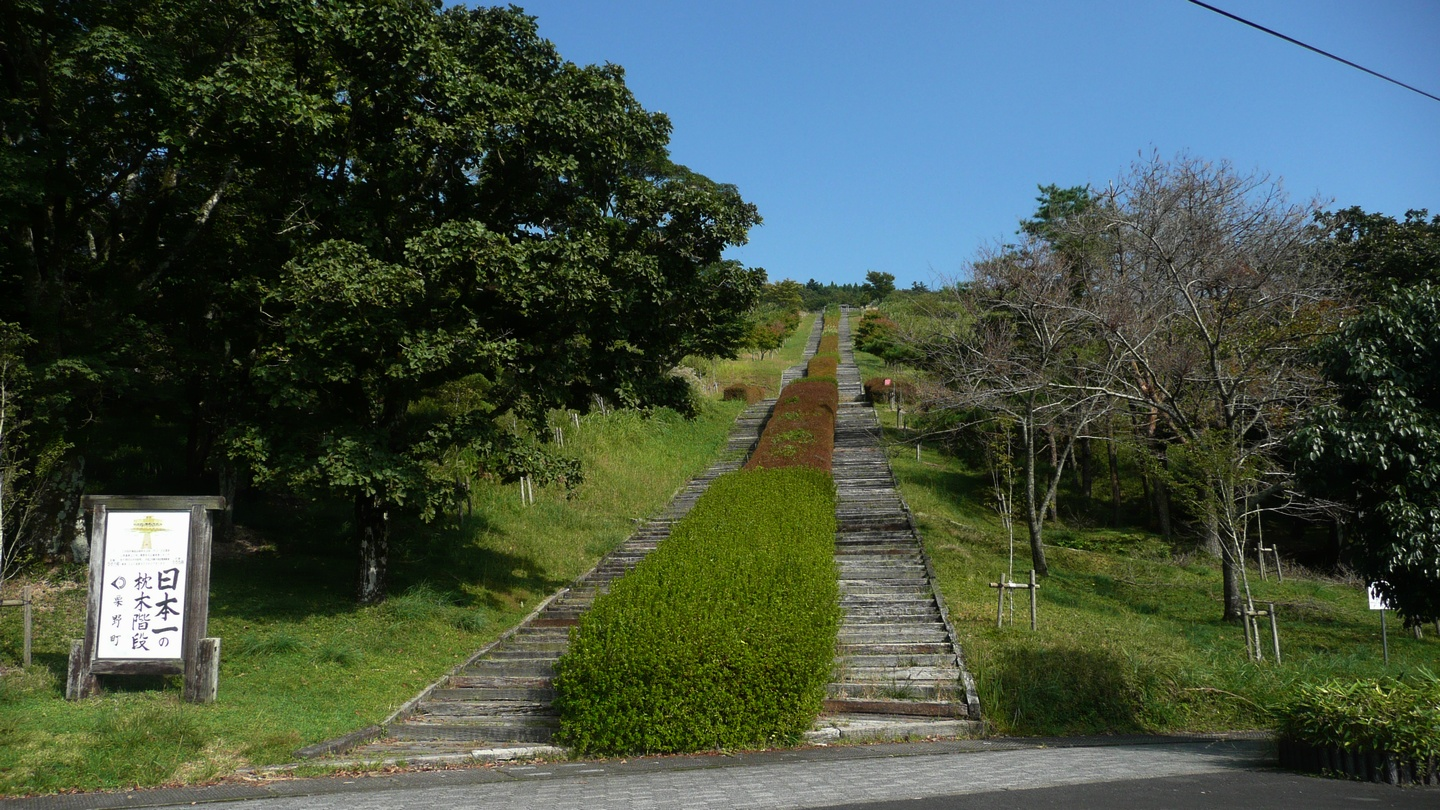 Stairs (Kurinodake Mountain - Yusui Town, Kagoshima, Japan)